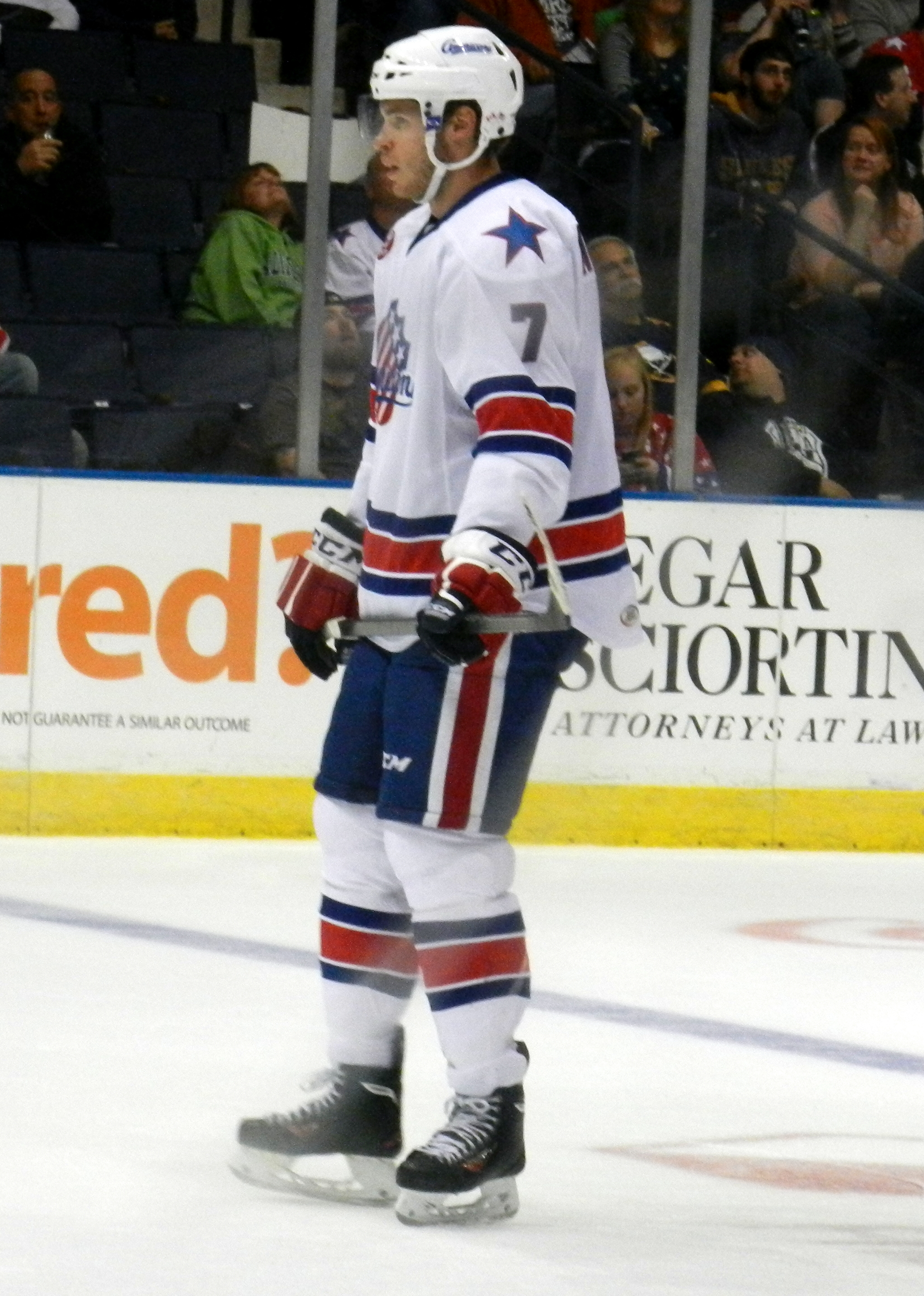 Brayden McNabb playing for the American Hockey League's Rochester Americans during the 2013-14 AHL season